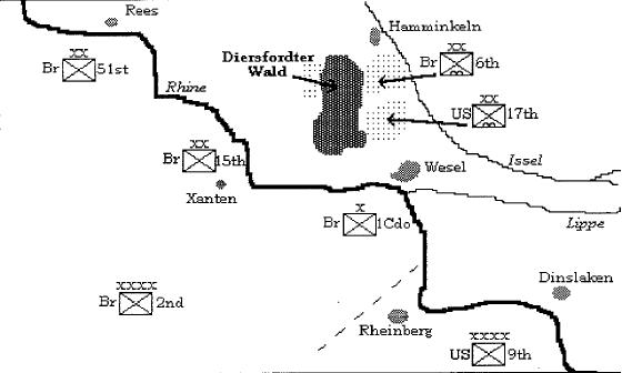 Map of the Operation Varsity planned drop zones, March 1945.